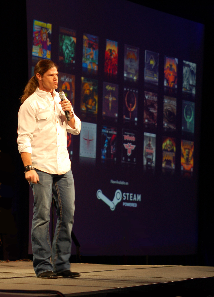 Todd Hollenshead, CEO of id Software at QuakeCon 2007 presenting the release of all id Software games into the Steam content platform. On the projector behind him is an assembly of all the games.